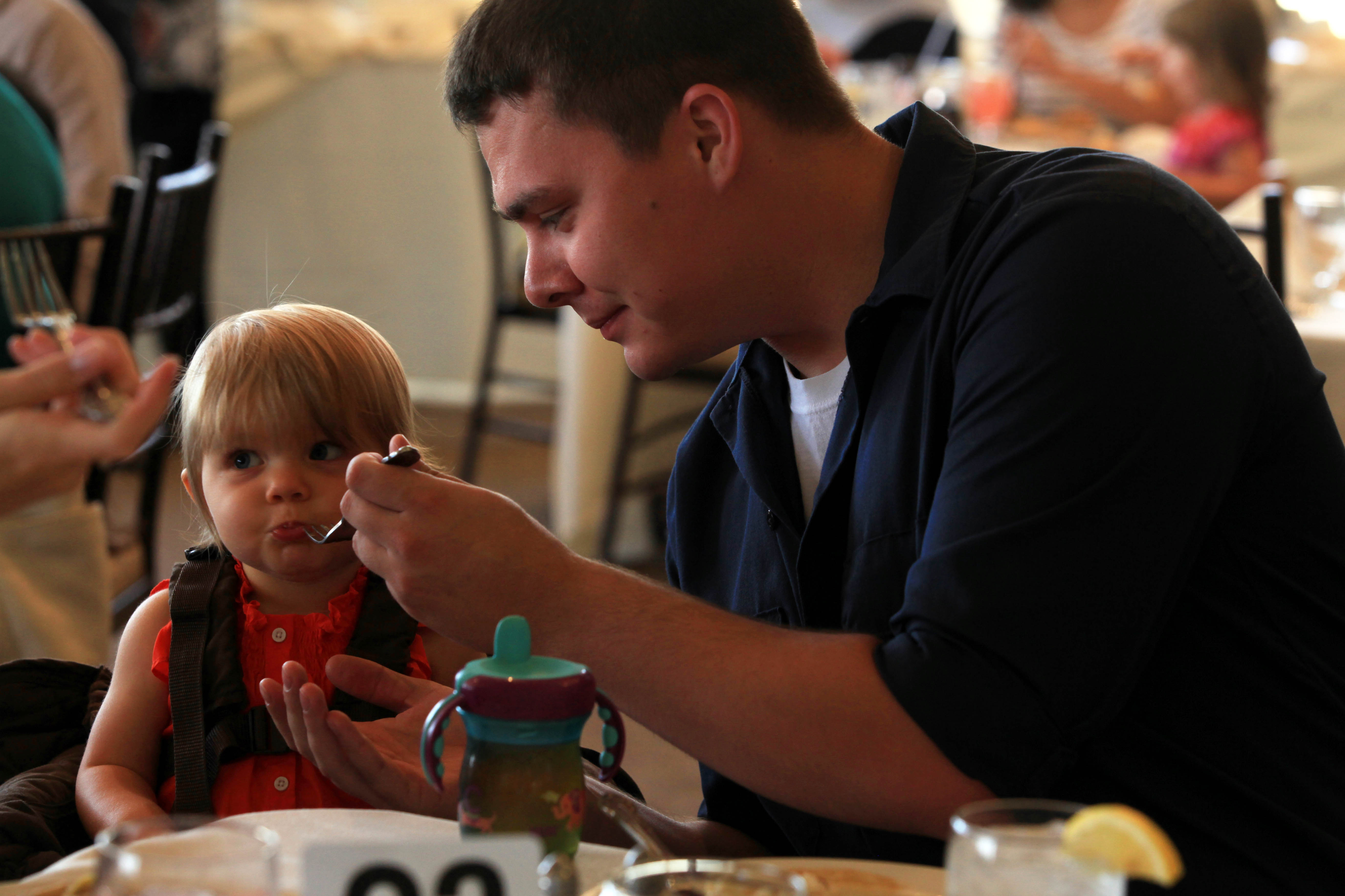 Petty Officer 3rd Class Arthur Richardson, a corpsman with 1st Medical Battalion at Marine Corps Base Camp Pendleton, feeds 1-year-old daughter, Adalynn Richardson, during the Father's Day luncheon held at the Pacific Views Event Center, Marine Corps Base Camp Pendleton, June 17.